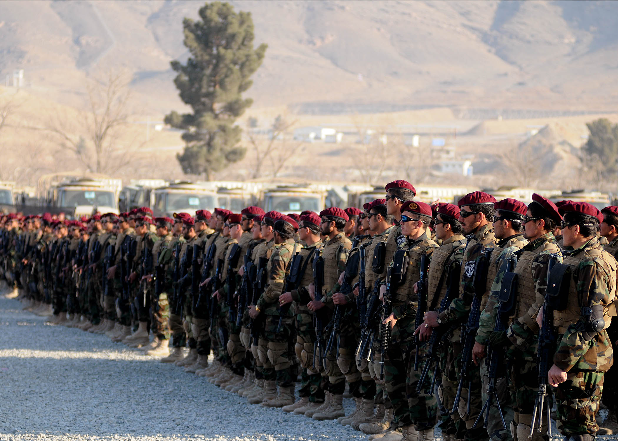 CAMP MOREHEAD, Afghanistan -- Afghan commandos stand in formation during the graduation of the 7th Commando Kandak Jan. 21. The commandos were trained by Afghan instructors and mentored by U.S., French, Canadian, Jordanian and United Arab Emirates special operations Forces to provide a rapidly deployable light infantry unit to the Afghan National Security Force. (ISAF Joint Command photo by U.S. Air Force Staff Sgt. Logan Tuttle)